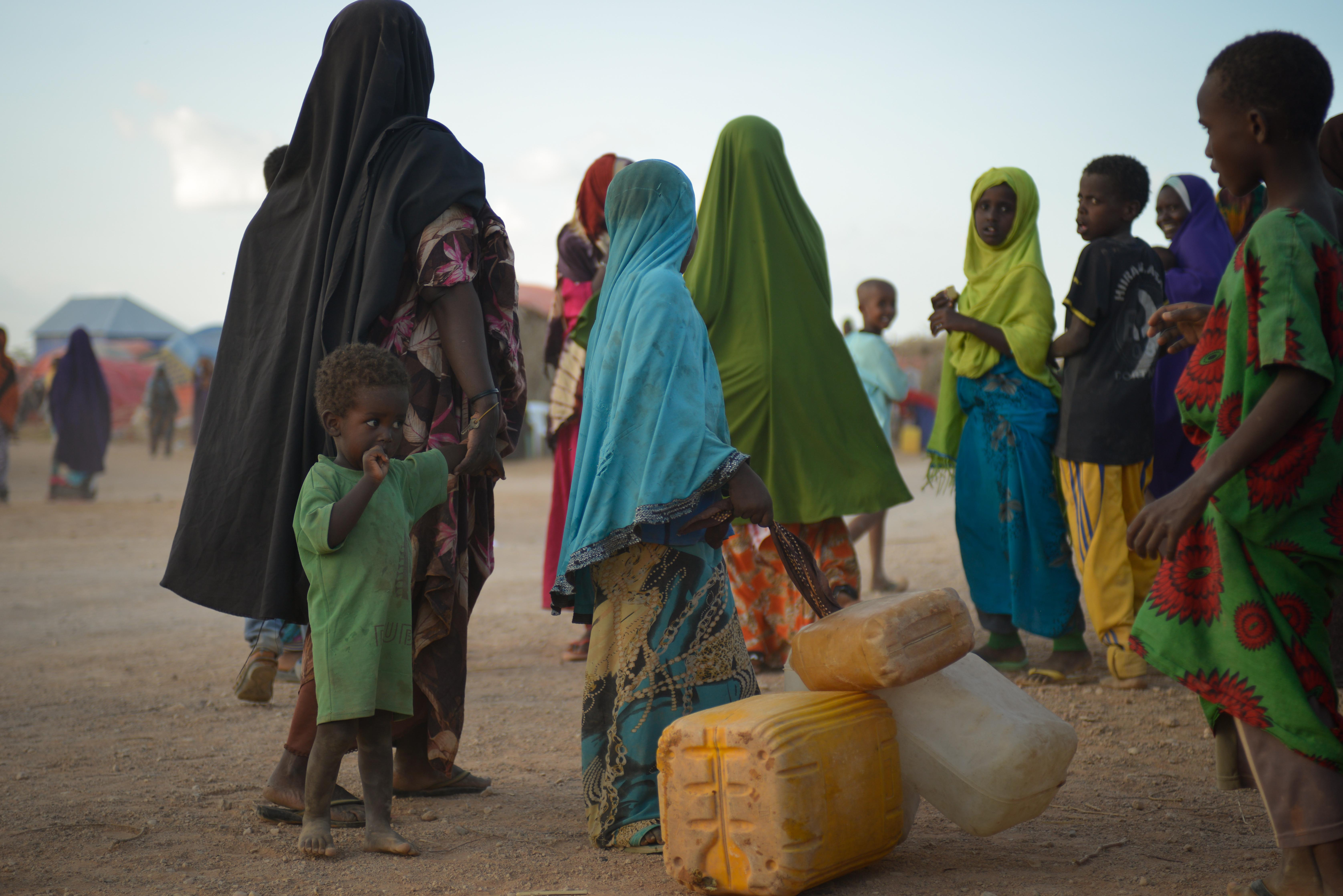 Women and children line up outside of a water distribution camp in an IDP camp near the town of Beletweyne, Somalia, on May 28, 2016. More than 17,000 people have been displaced by flooding in the Hiraan region of Somalia, which has caused the Shabelle river to break its banks. AMISOM Photo / Tobin Jones